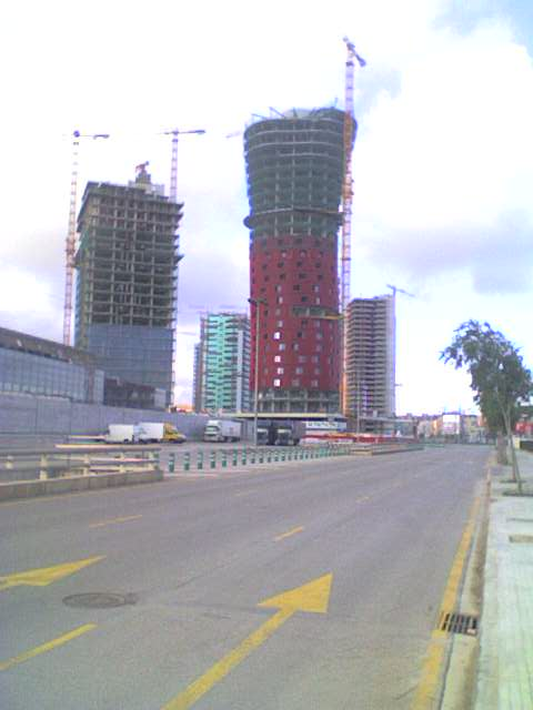 Toyo Ito Towers